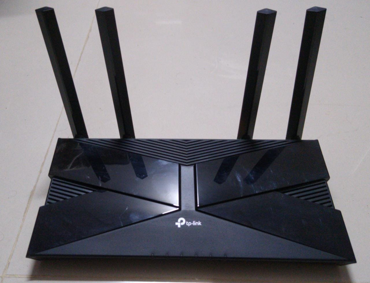 TP-Link AX1500 Wi-Fi 6 Router Front